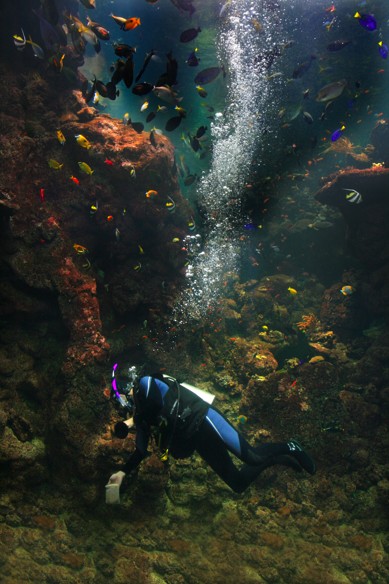 Diver is cleaning aquarium in California Academy of Sciences